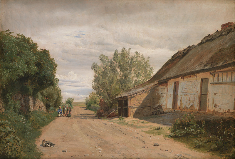 On the outskirts of the village Vejby